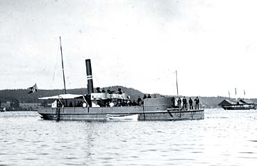 A 2. class gunboat, built for the Royal Norwegian Navy. Photo taken 1874. Note the shield around the RLM gun in front, and the small overall size of the vessel.